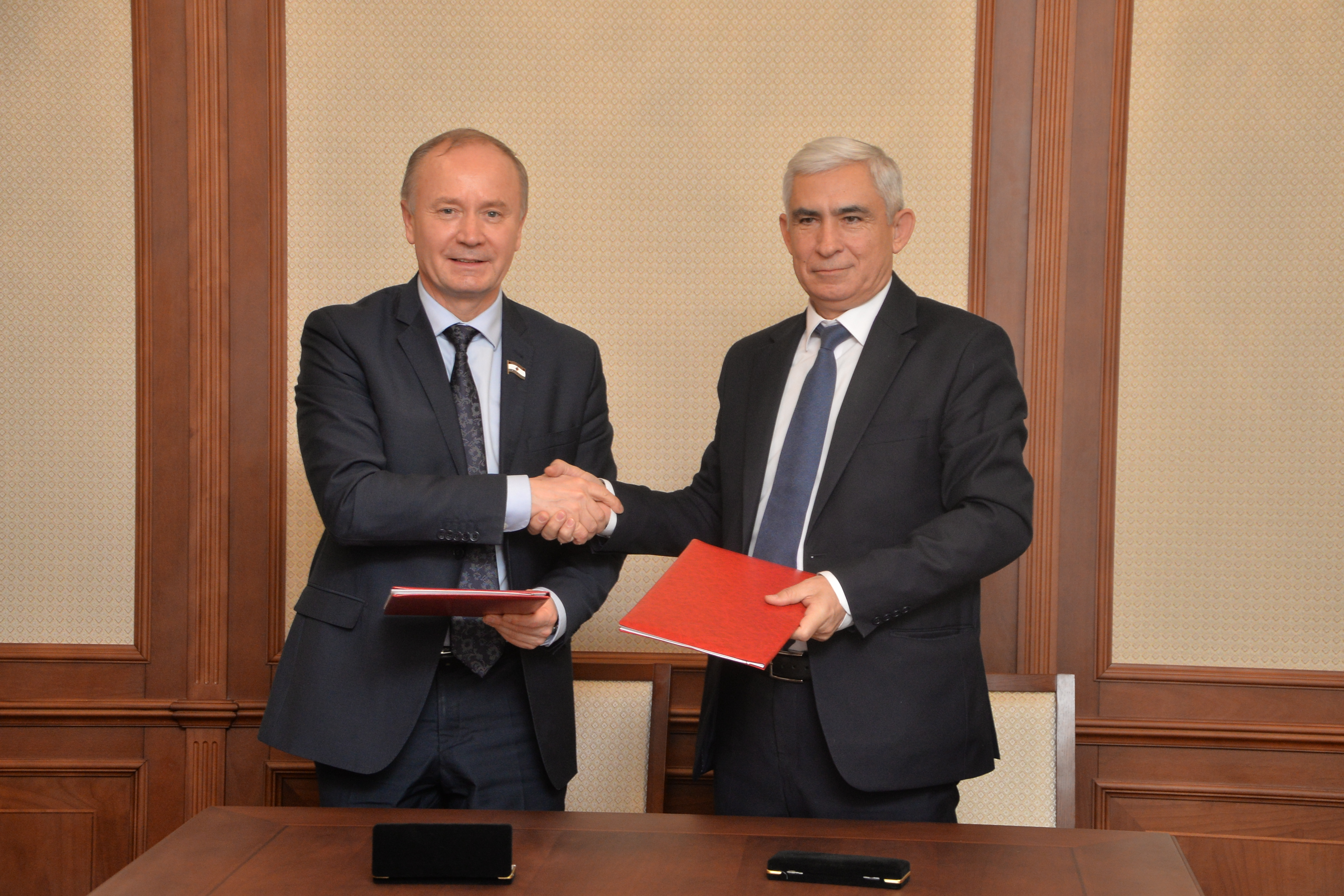 xalqaro